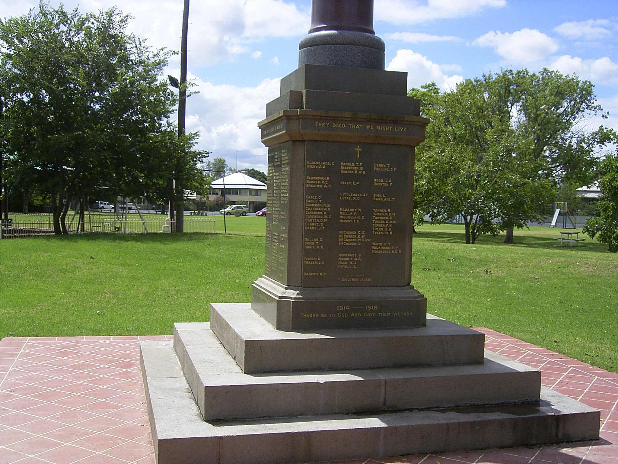 Detail of the war Memorial Moument in the War Memorial Park in the town of Goondiwindi, Queensland.